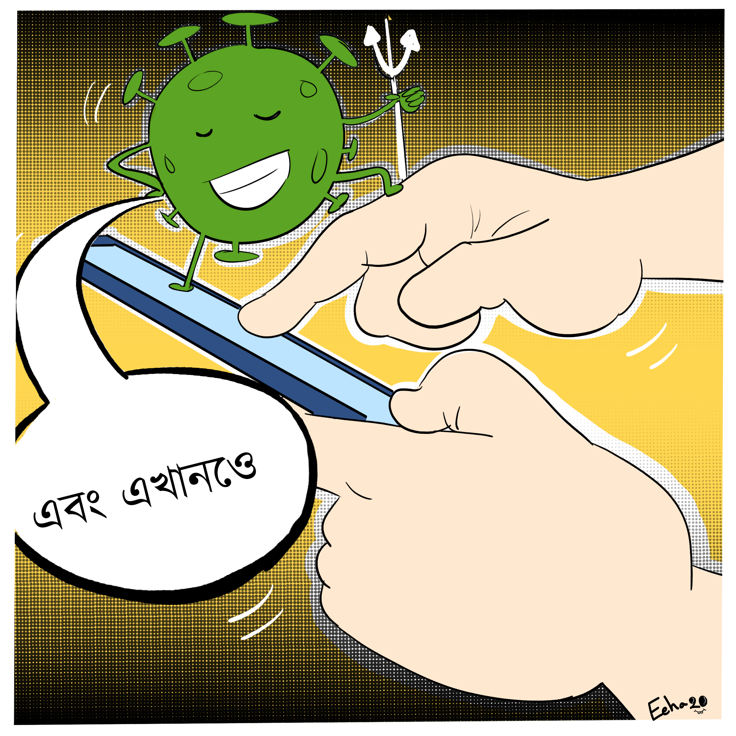 Artist, Visualization & dialogue : Anika Nawar Eeha Concept: Abdullah Al Mamun